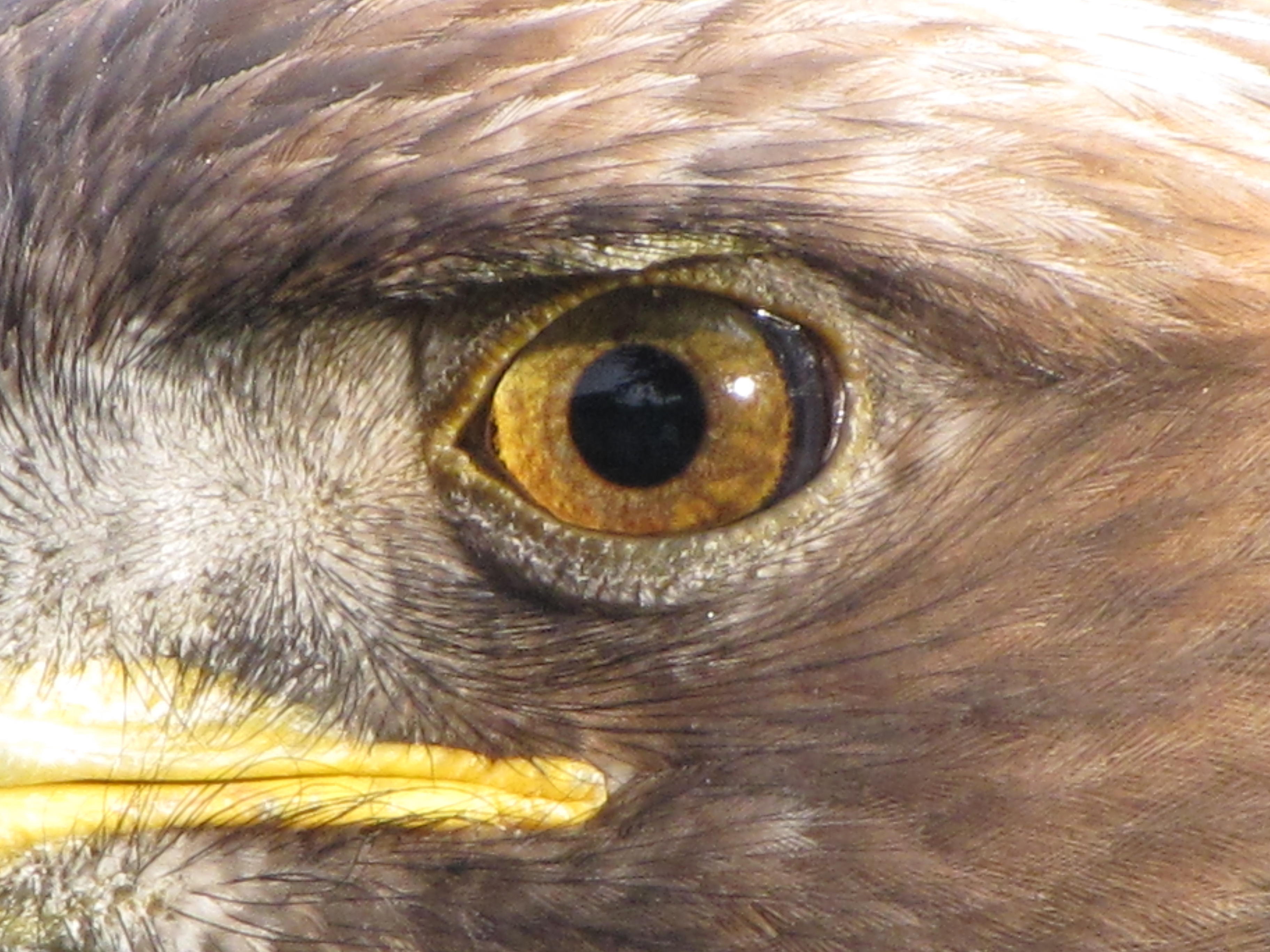 Sierra, a golden eagle who lives at the San Francisco zoo